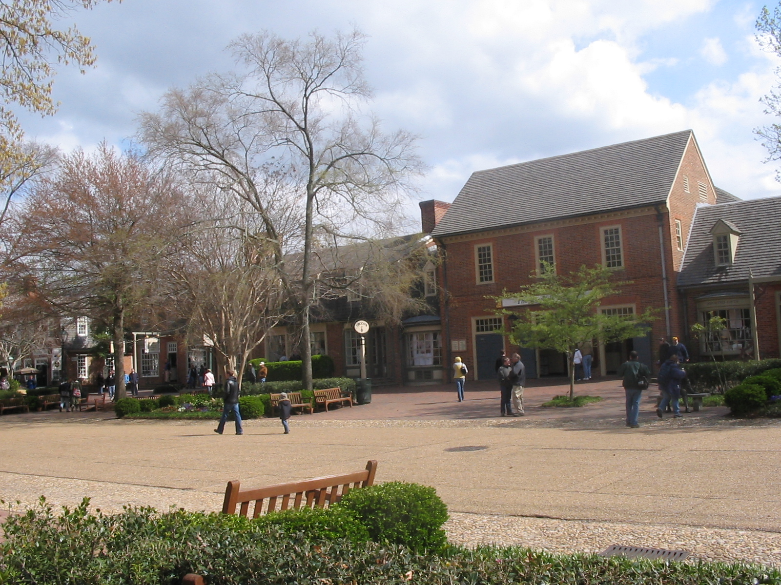 Image taken by me for Wikipedia